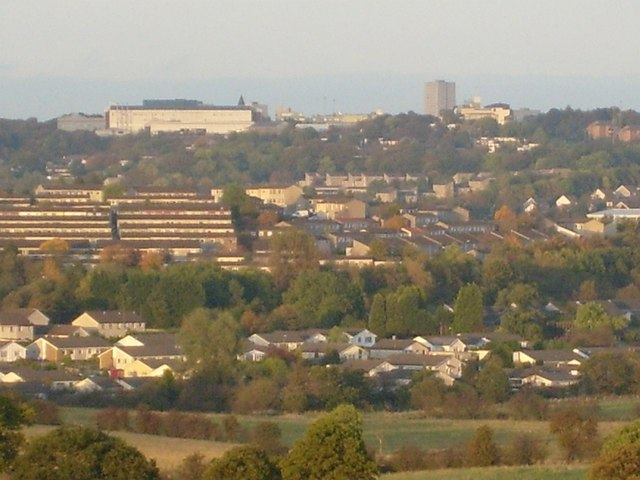 Cumbernauld The south western area of the town featuring parts of Condorrat, Greenfaulds and the town centre sky line. The photo was taken from the ridge east of Mollinsburn.